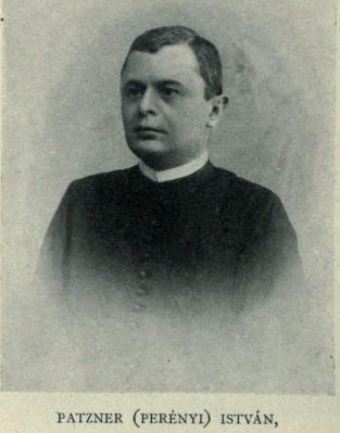 Portrait of Patzner (Perényi) István